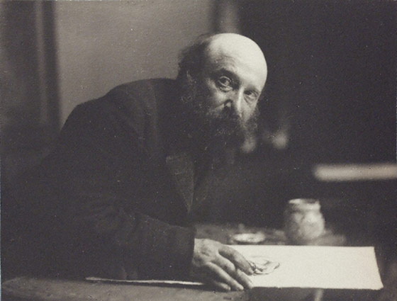 Simeon Solomon